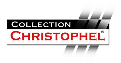 Logo de la Collection Christophel